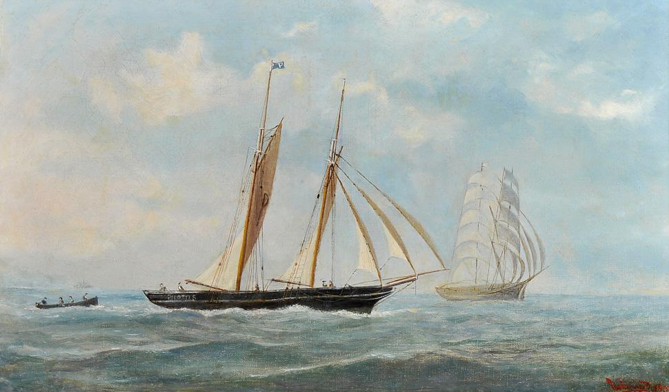 A pilot boat in the River Tagus; the Bugio Lighthouse can be seen in the distance.